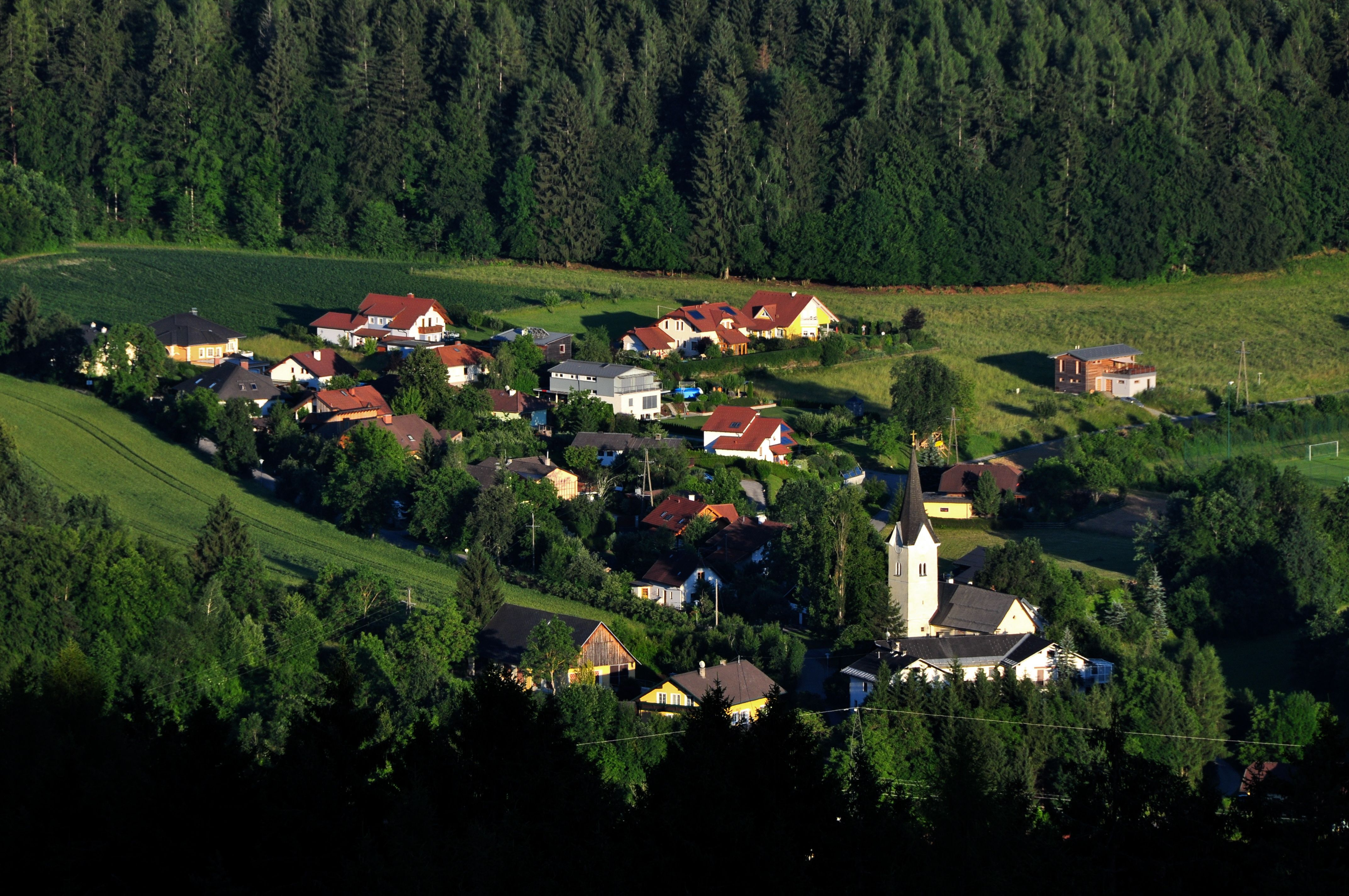 View at Sankt Gandolf featuring the subsidiary church, municipality Koettmannsdorf, district Klagenfurt Land, Carinthia, Austria